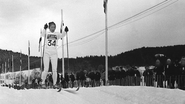 Swedish cross-country skier Toini Gustafsson Rönnlund at the Women's 5 kilometer race at the 1968 Winter Olympics Grenoble, France